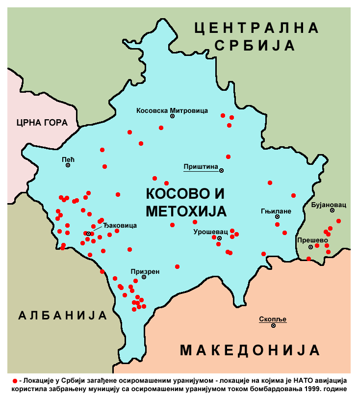 Sites in Kosovo and southern Central Serbia where NATO aviation used depleted uranium rounds during 1999 bombing.